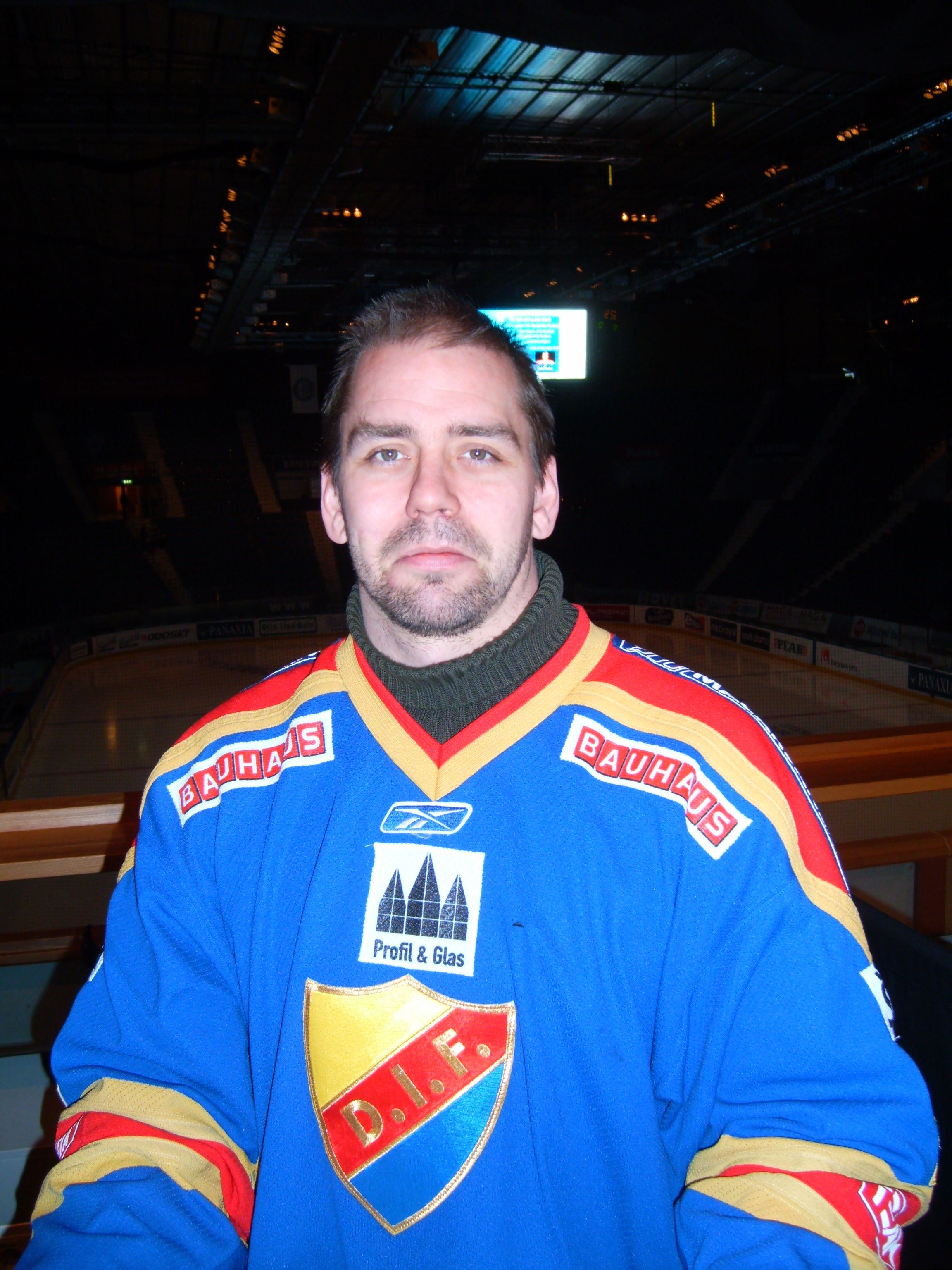 Nichlas Falk, Swedish ice hockey player.